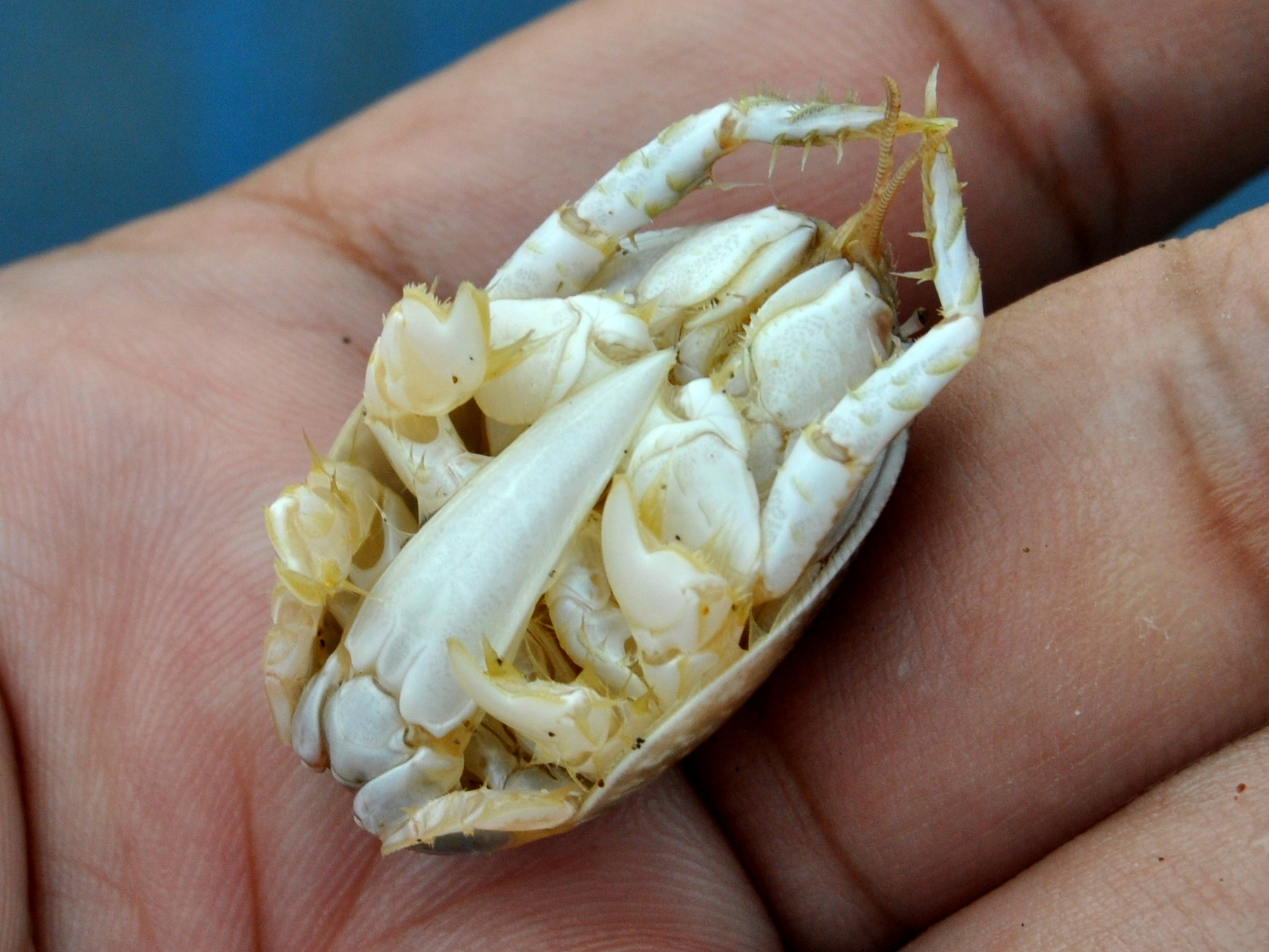 Hippa adactyla; ventral view. Palabuhanratu, West Java, Indonesia.